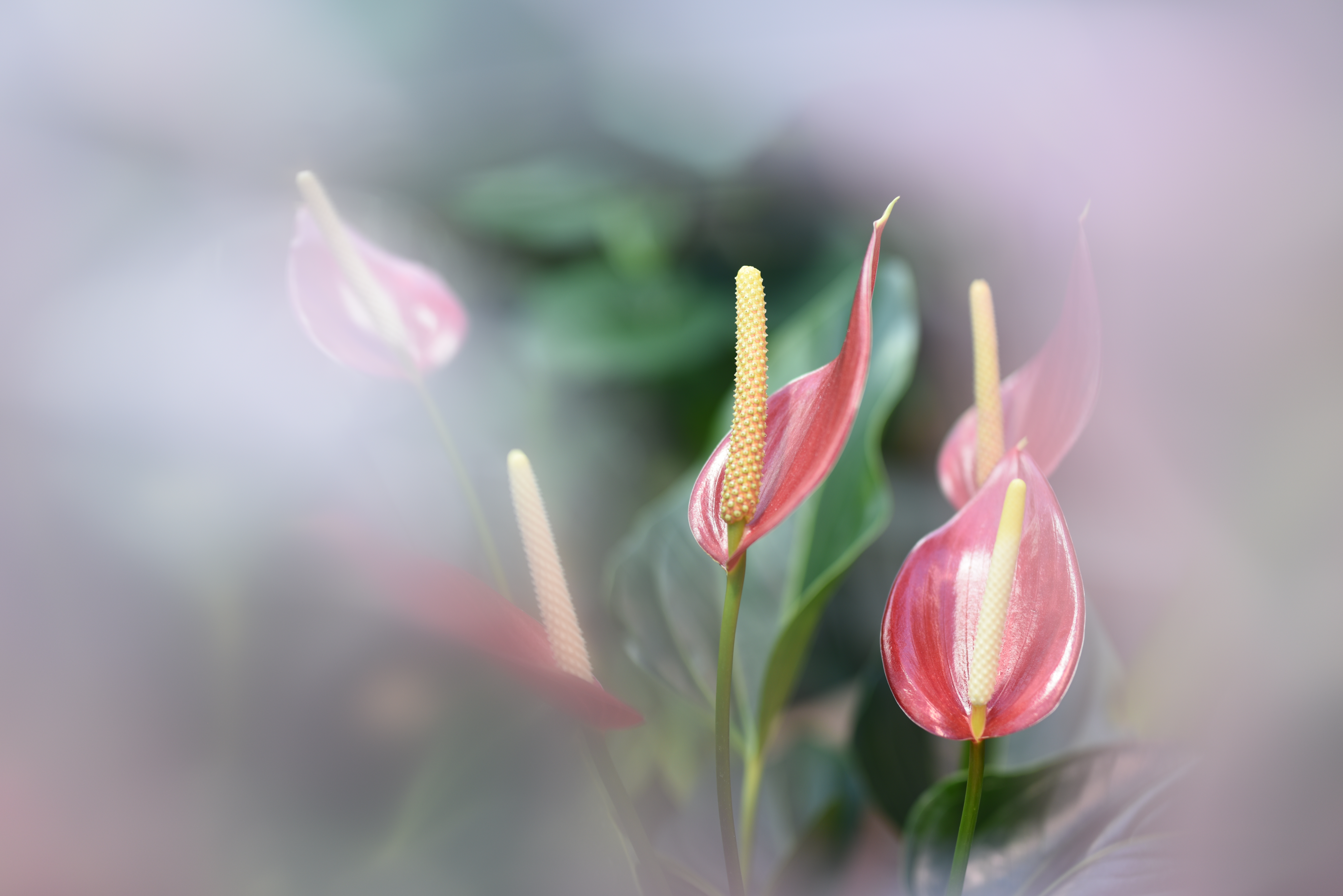 Uvaria ovata, native to West Africa.